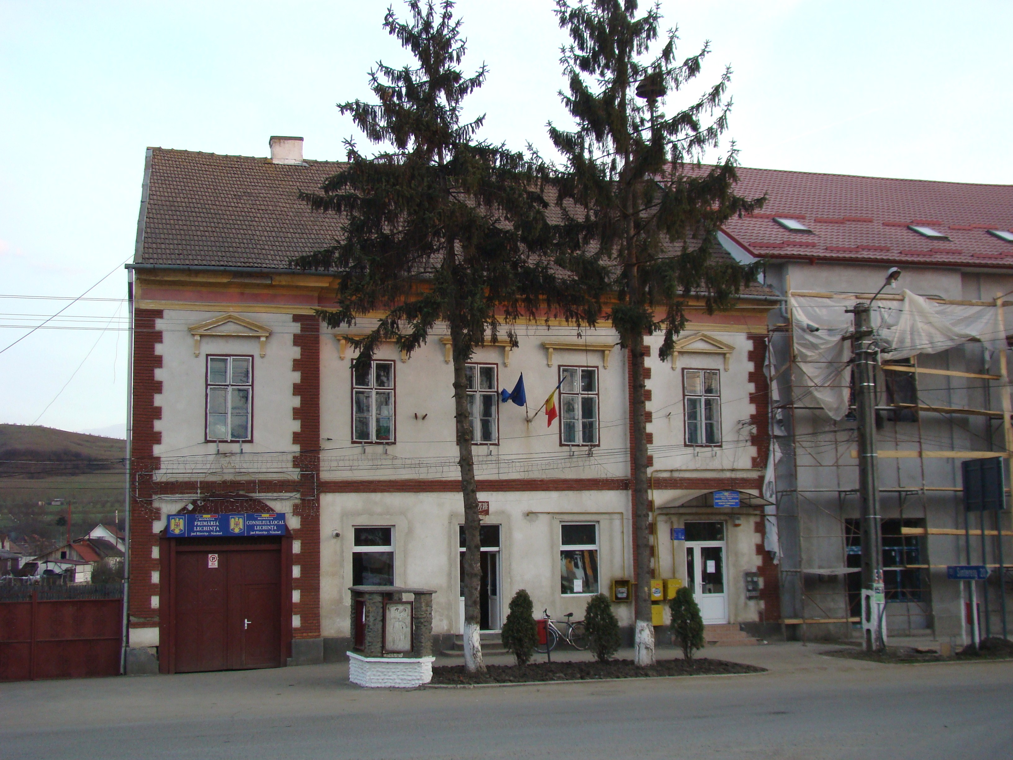 Lechința, Bistrița-Năsăud county, Romania